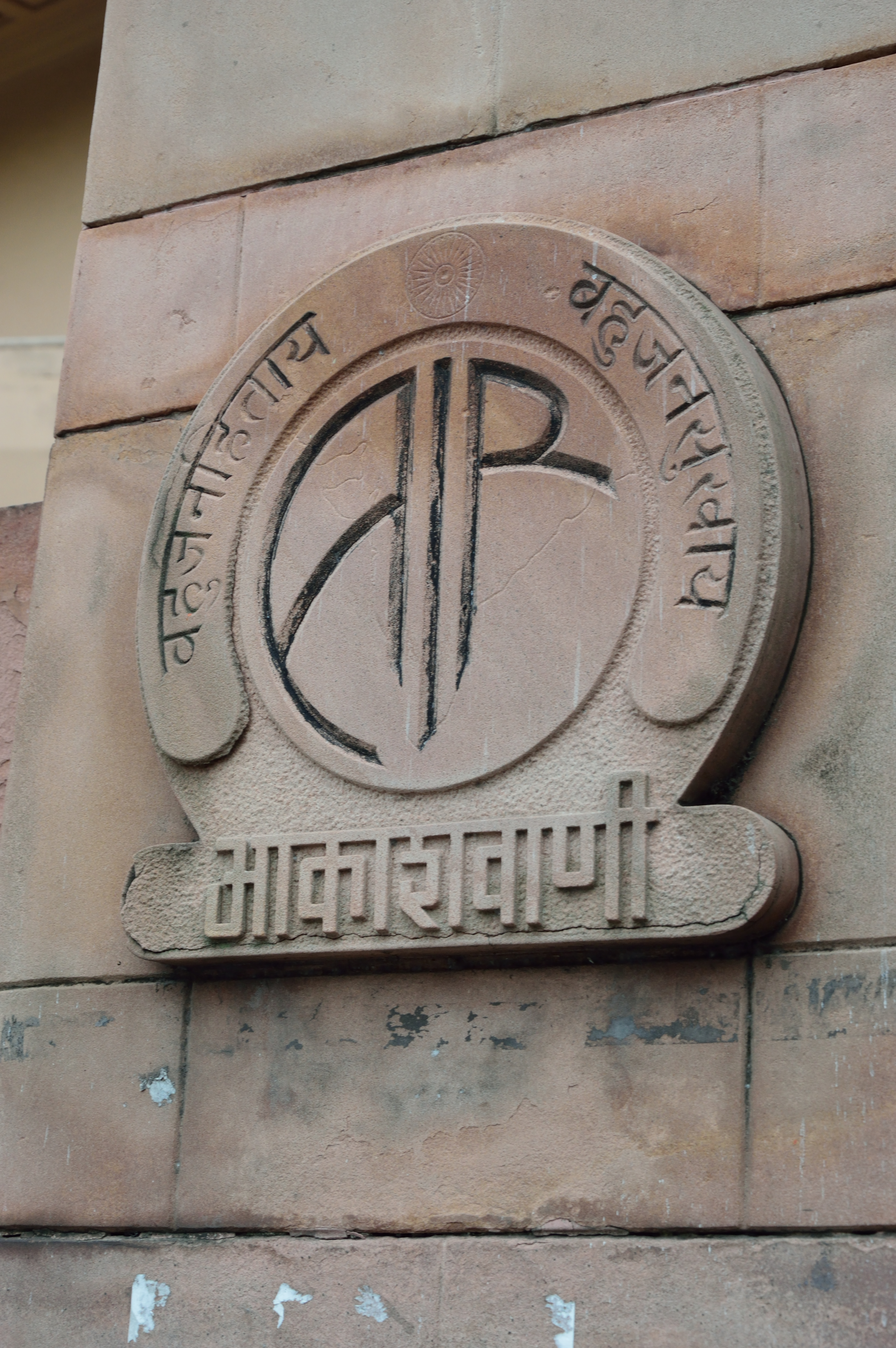 Photographed in greater Kolkata.